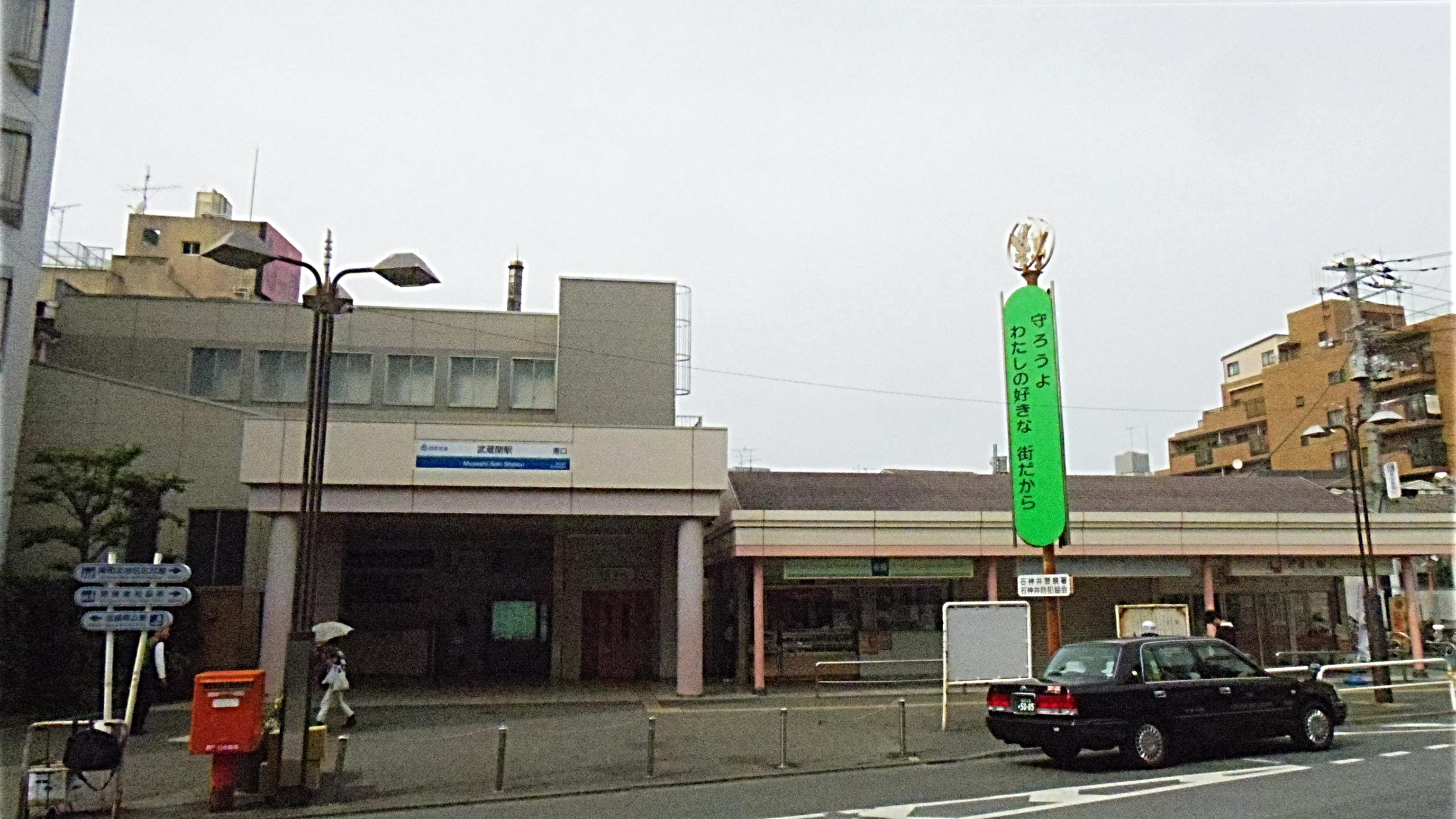 Musashi-Seki Station south entrance station building